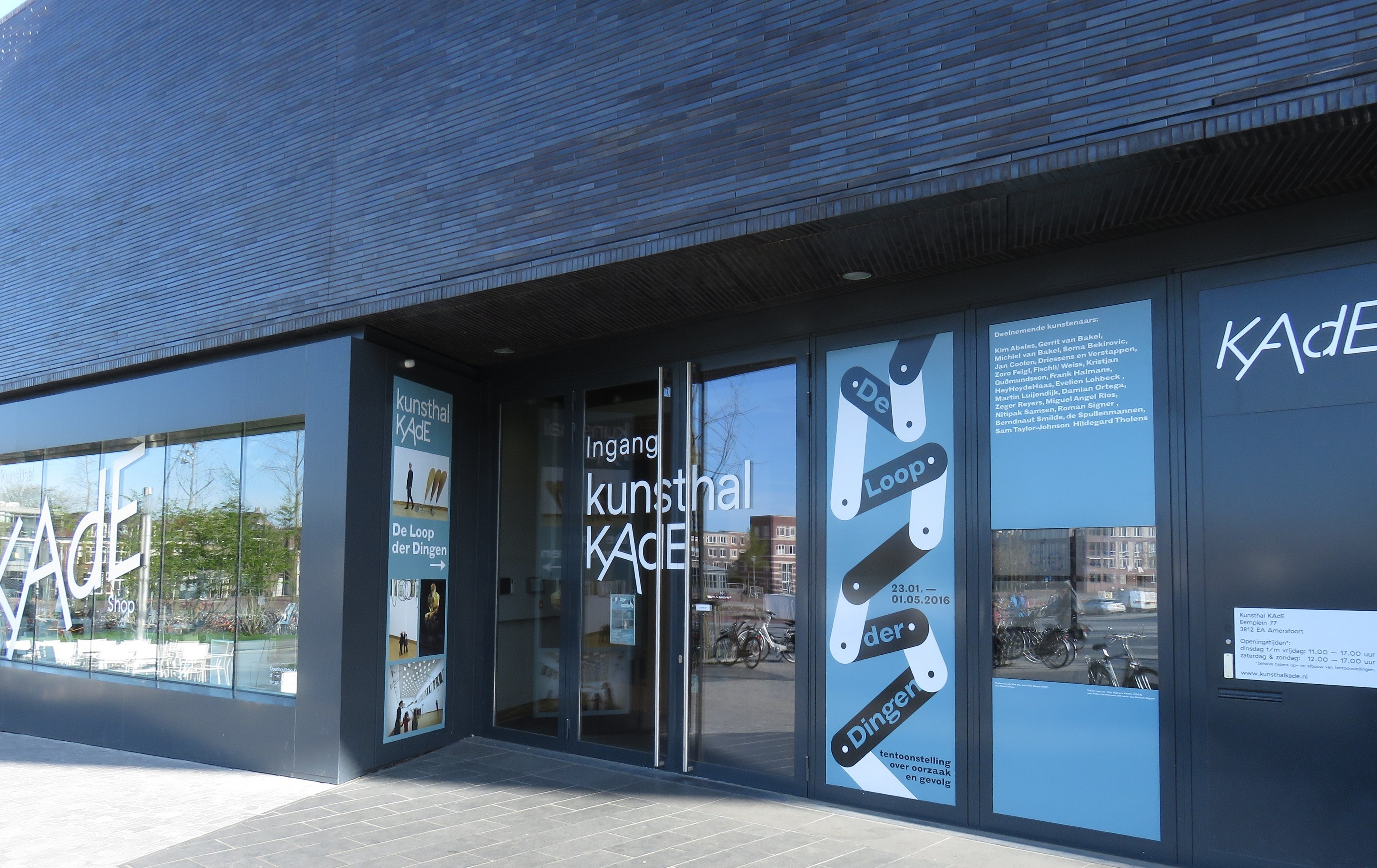 Entrance of Kunsthal Kade, Exposition center in Amersfoort (NL)